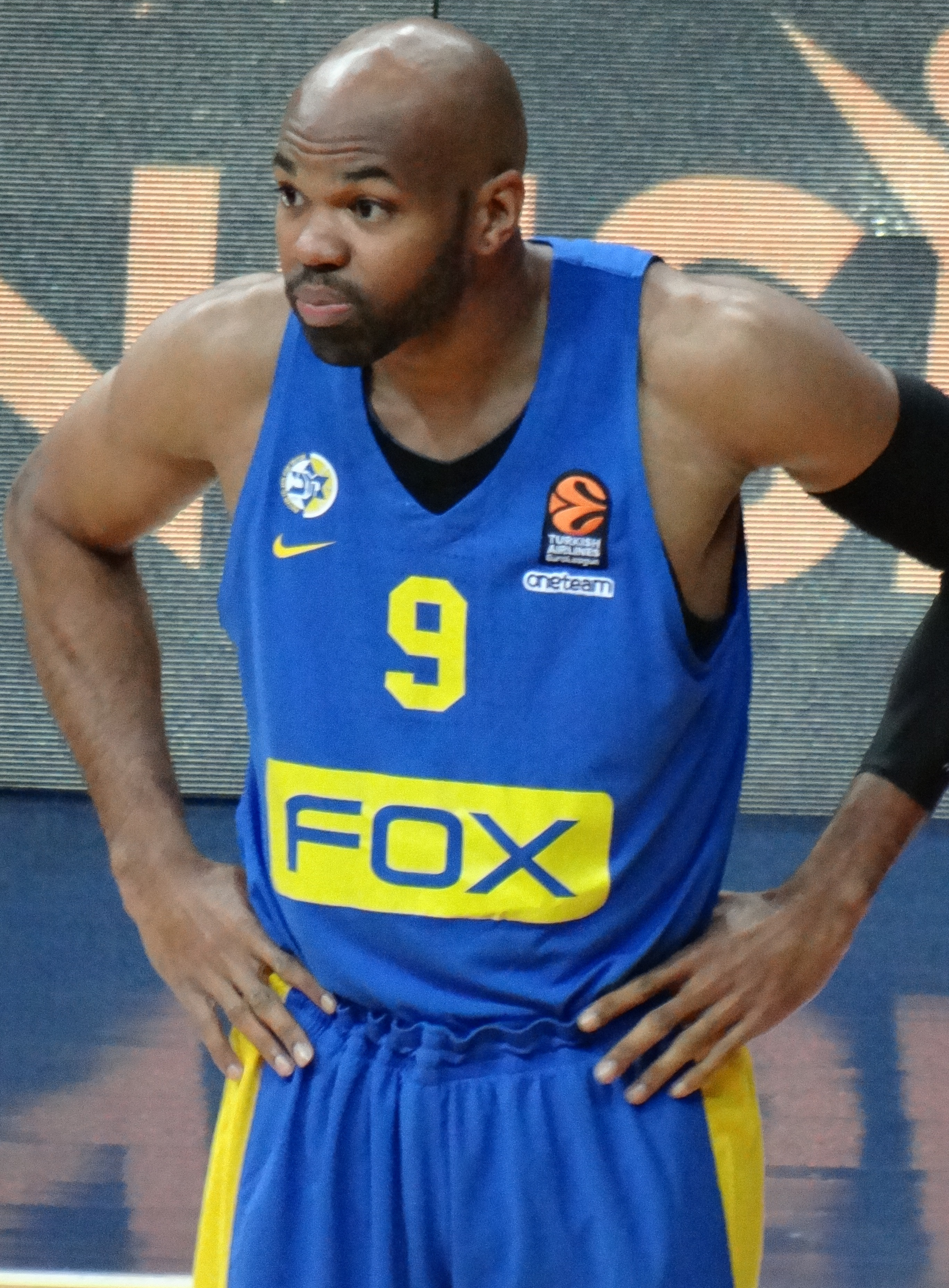 Alex Tyus 9 Maccabi Tel Aviv B.C. EuroLeague 20180320